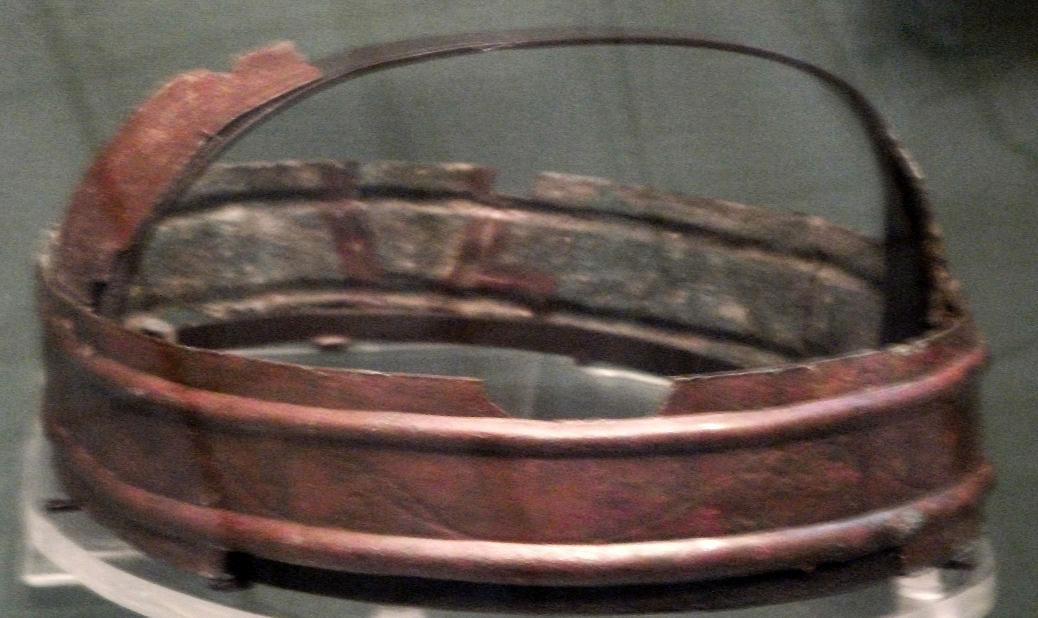 Crown from the Deal Grave, Kent British Museum; and BM Highlights